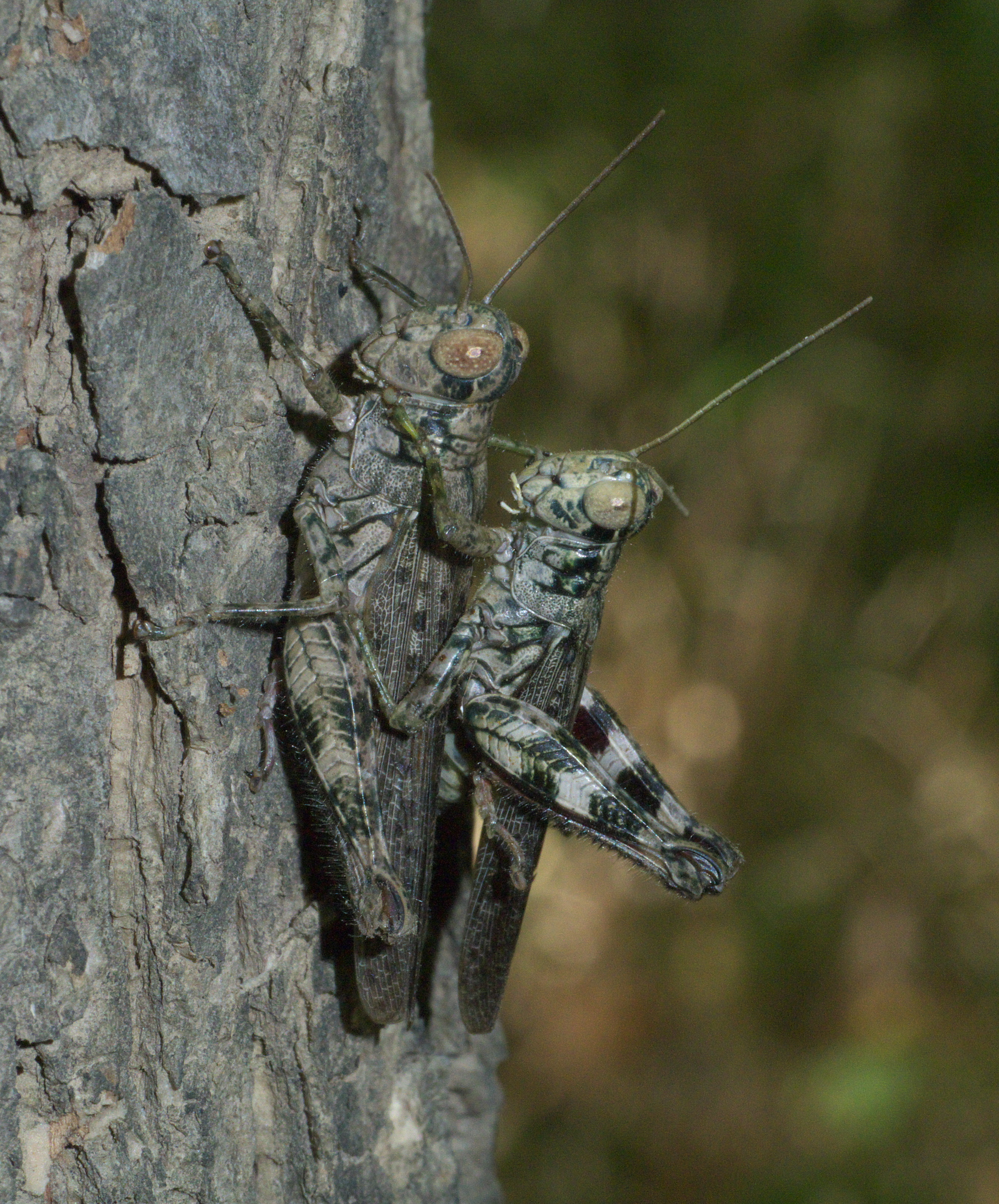 Melanoplus punctulatus, Pine Tree Spur-throat Grasshopper, ID Confidence: 98